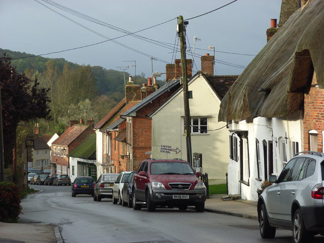 Ramsbury. Looking down Oxford Street towards the village centre.